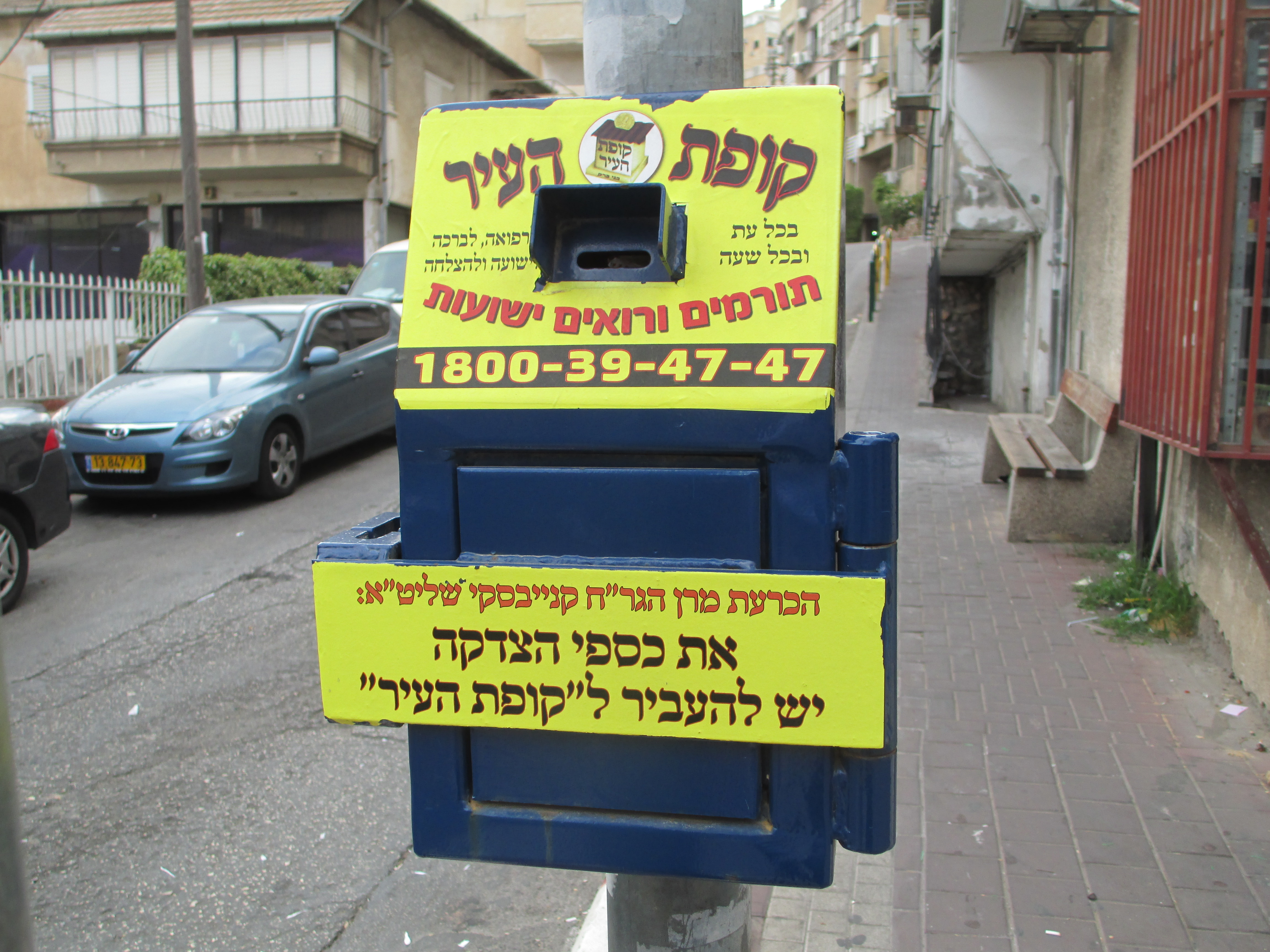 Charity Box in Bnei Brak